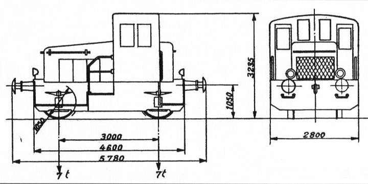 Drawing of SNCF Y 2100